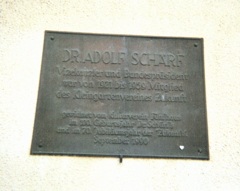 To the memory of Austria's president Schaerf, who had a small garden at Schmelz